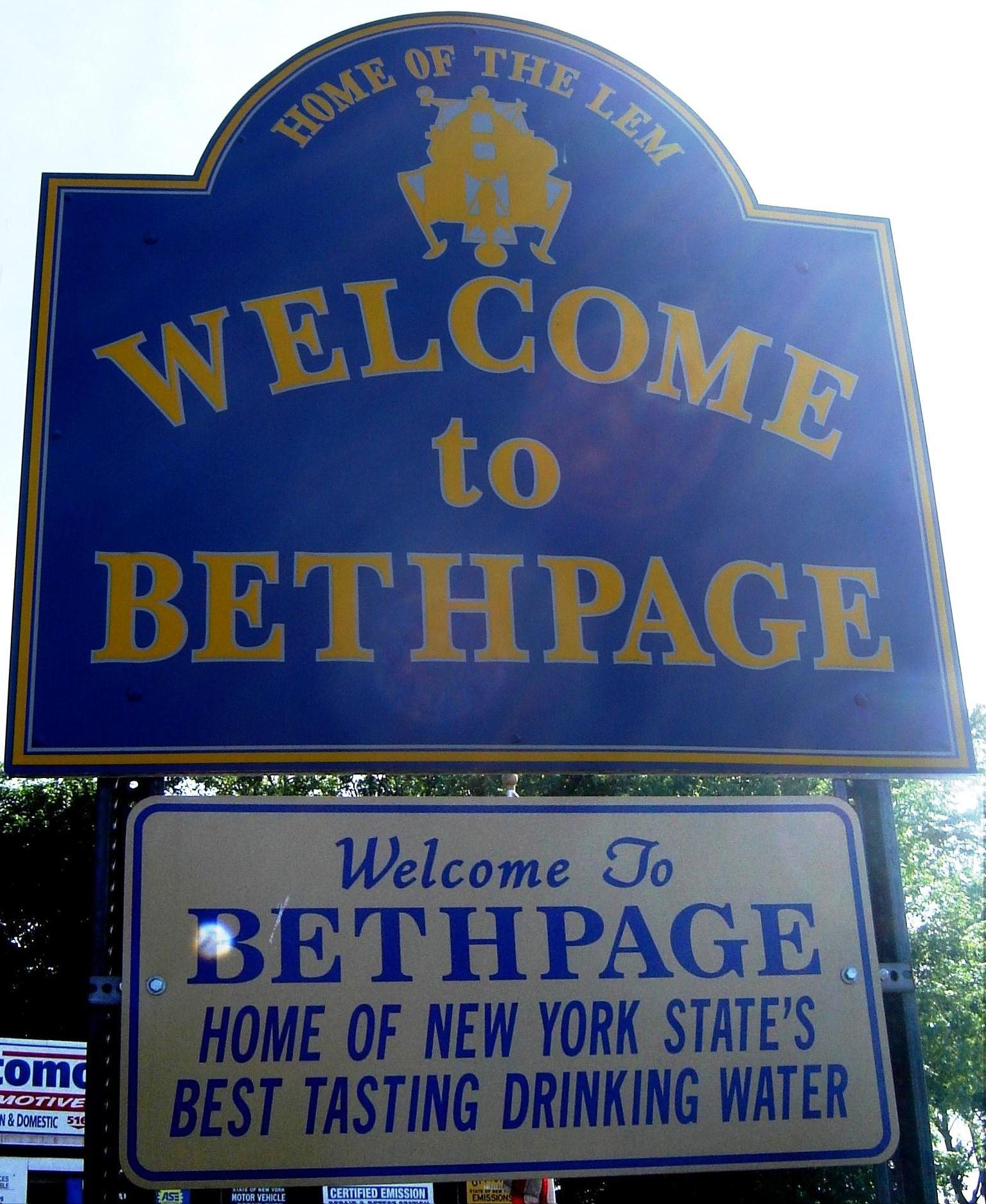 Welcome to Bethpage sign on Stewart Ave.